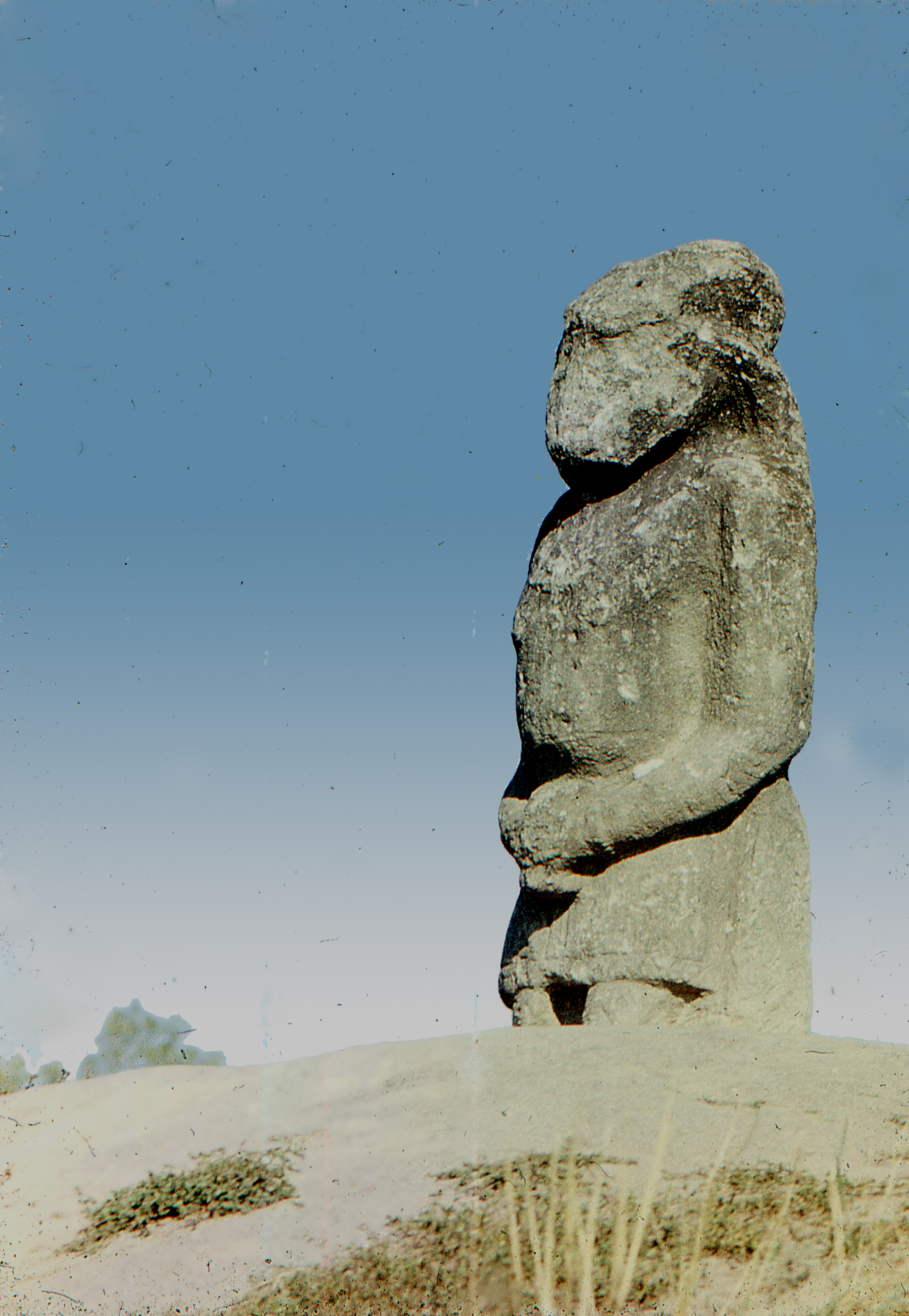 Sculpture in Steppe habitat garden. At National M. M. Grishko botanical garden, in Kiev - Ukraine.